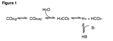 Description: Figure 1. Important acid-base reactions involving carbon dioxide. Date: January, 2007 Source: Frame limits and equations based off of similar figures in Horace W. Davenport. The ABC of Acid-Base Chemistry: The Elements of Physiological Blood-Gas Chemistry for Medical Students and Physicians. Sixth Edition. The University of Chicago Press. 1974. Software: Graphics were generated using the programs Grapher and EazyDraw Author: Jimmy Martenson